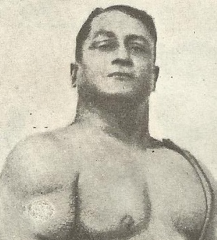 The image is a scanned photograph of Major Phanindra Krishna Gupta (1882 - 1952).